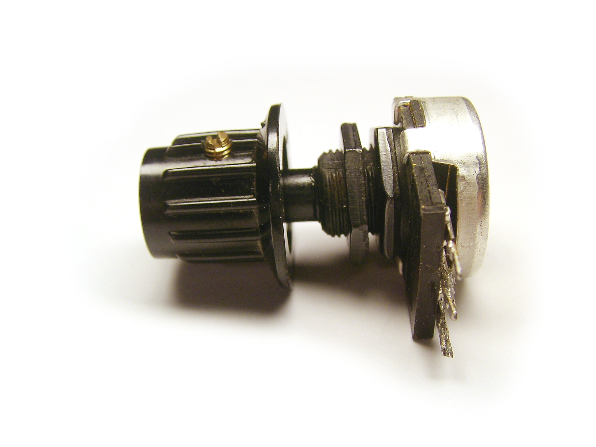 A potentiometer, its knob and the set screw that locks the knob in place.